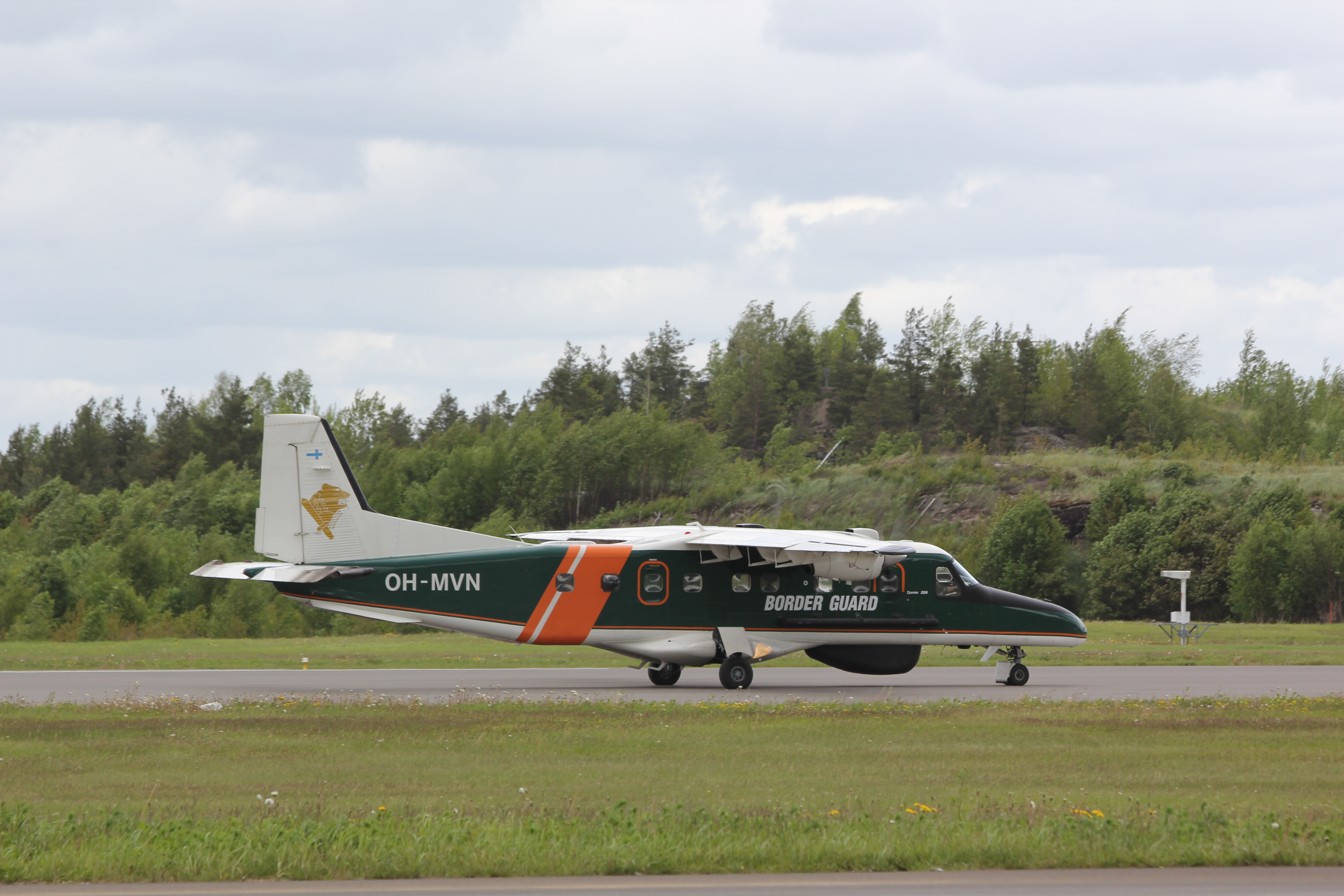 Finnish border guard Dornier Do 228 maritime patrol aircraft (OH-MVN) taxiing after display flight in Turku Airshow 2015.